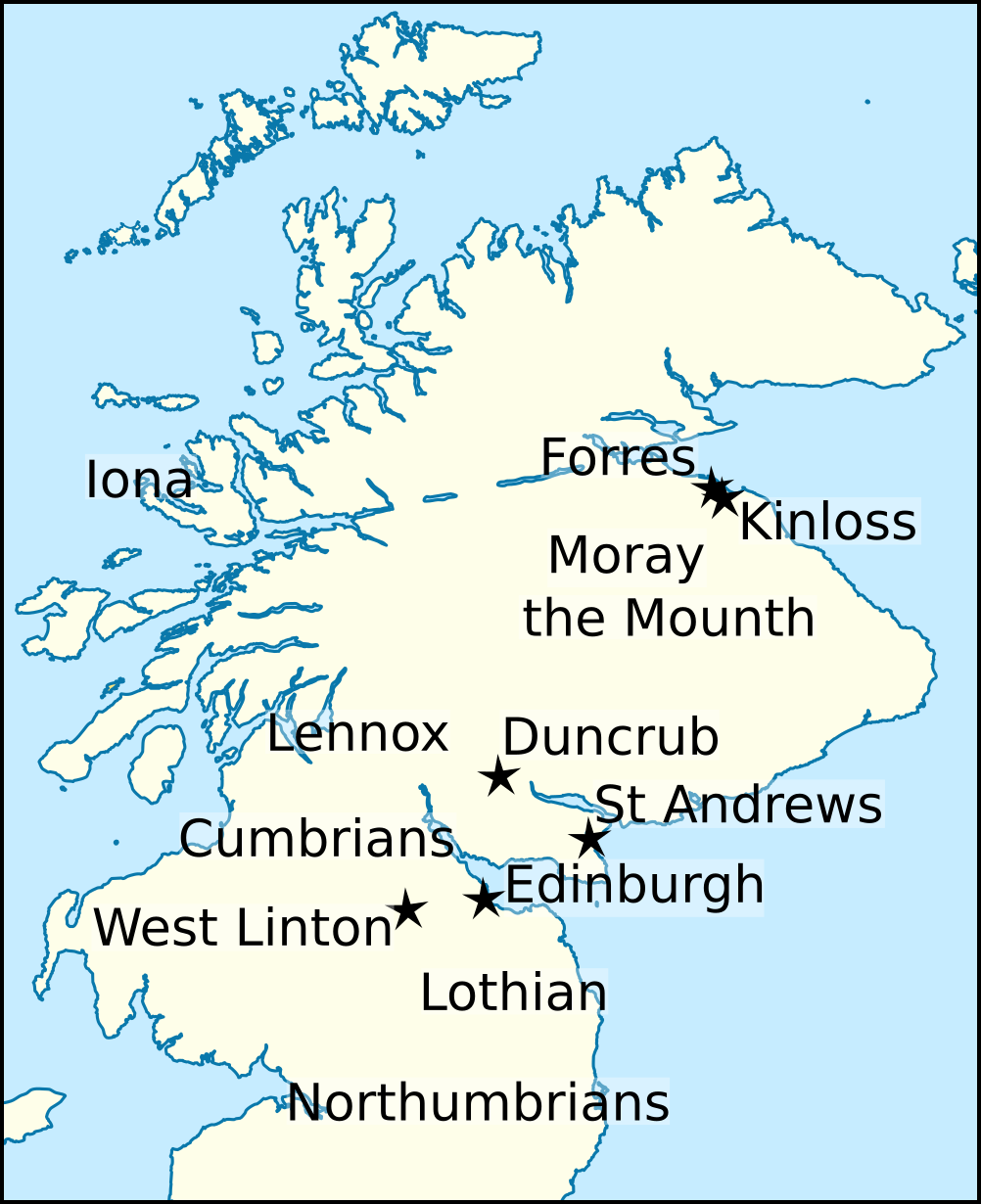 Map for the Wikipedia article concerning Cuilén mac Illuilb, King of Alba (died 971).